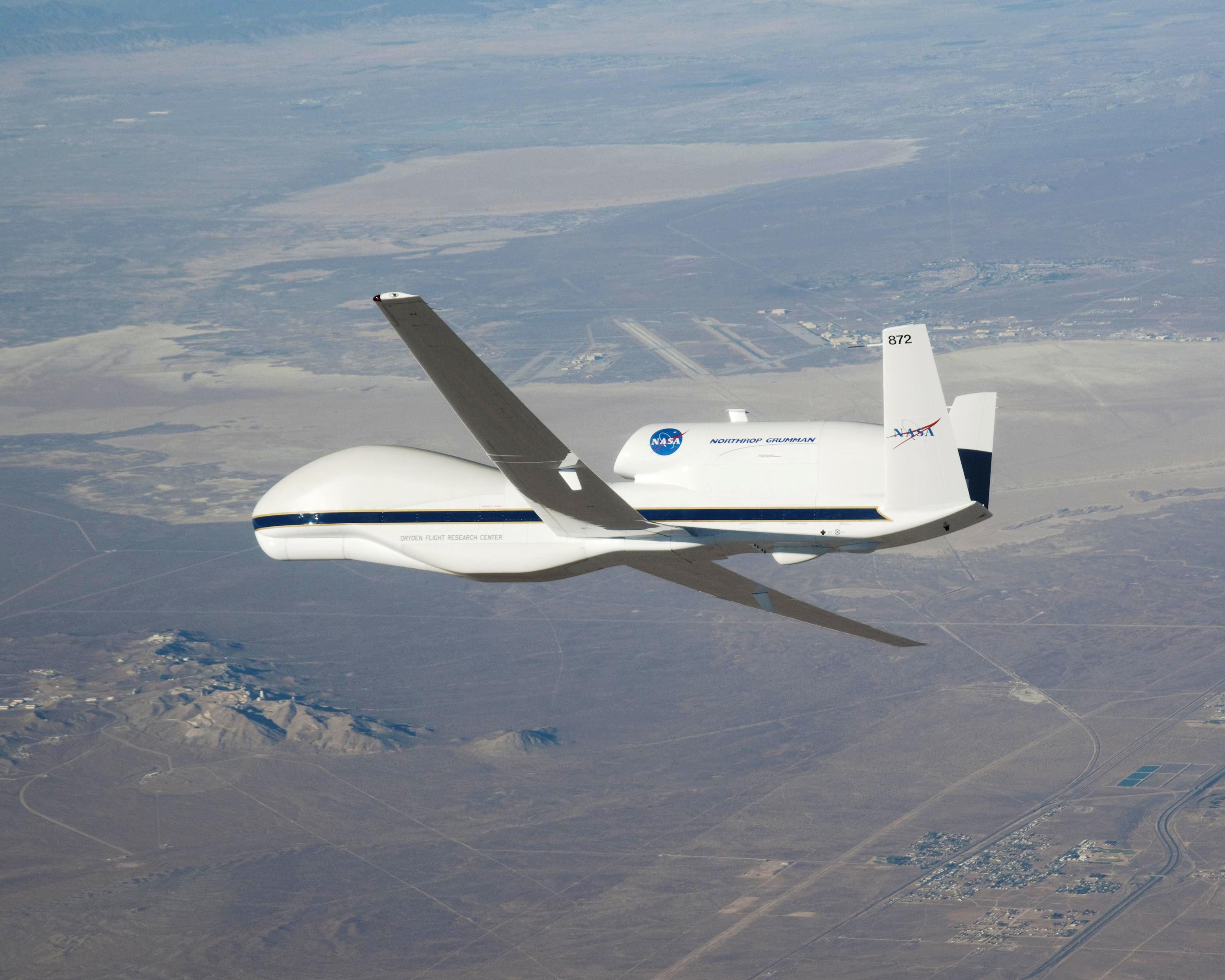 NASA image acquired October 23, 2009. At NASA’s Dryden Research Center in California, a group of engineers, scientists, and aviation technicians have set up camp in a noisy, chilly hangar on Edwards Air Force base. For the past two weeks, they have been working to mount equipment—from HD video cameras to ozone sensors—onto NASA’s Global Hawk, a remote-controlled airplane that can fly for up to 30 hours at altitudes up to 65,000 feet. The team is gearing up for the Global Hawk Pacific campaign, a series of four or five scientific research flights that will take the Global Hawk over the Pacific Ocean and Arctic regions. The 44-foot-long aircraft, with its comically large nose and 116-foot wingspan is pictured in the photograph above, banking for landing over Rogers Dry Lake in California at the end of a test flight on October 23, 2009. The long wings carry the plane’s fuel, and the bulbous nose is one of the payload bays, which house the science instruments. For the Global Hawk Pacific campaign, the robotic aircraft will carry ten science instruments that will sample the chemical composition of air in the troposphere (the atmospheric layer closest to Earth) and the stratosphere (the layer above the troposphere). The mission will also observe clouds and aerosol particles in the troposphere. The primary purpose of the mission is to collect observations that can be used to check the accuracy of simultaneous observations collected by NASA’s Aura satellite. Co-lead scientist Paul Newman from Goddard Space Flight Center is writing about the ground-breaking mission for the Earth Observatory’s Notes from the Field blog. NASA Photograph by Carla Thomas. NASA Goddard Space Flight Center is home to the nation's largest organization of combined scientists, engineers and technologists that build spacecraft, instruments and new technology to study the Earth, the sun, our solar system, and the universe. To learn more about this image go to